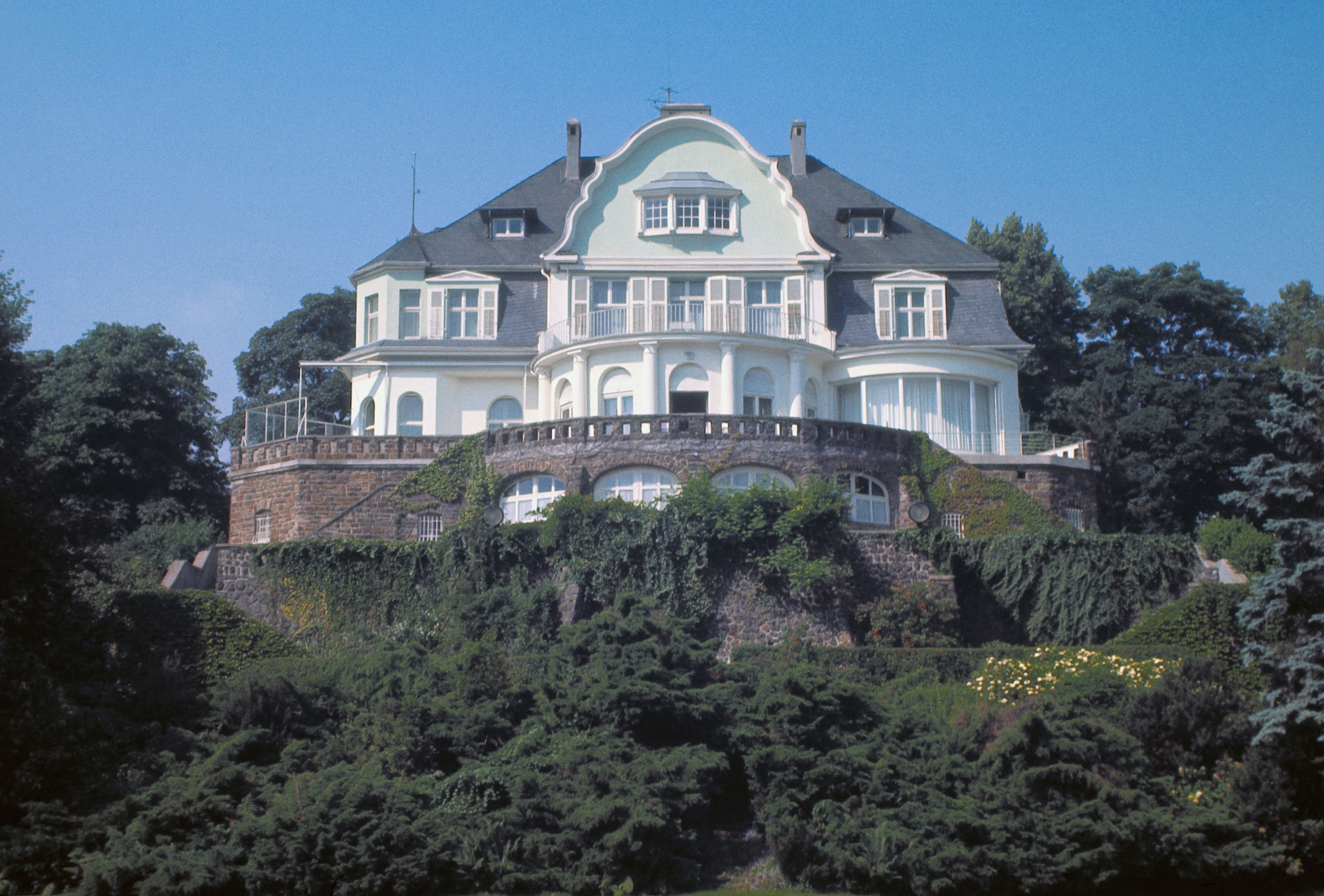 Embassy Mission residence, Rolandstraße 67, Bonn